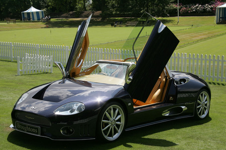 (Broughtons) Spyker at Salon Prive, London. Photographer: User:Thecodmaster